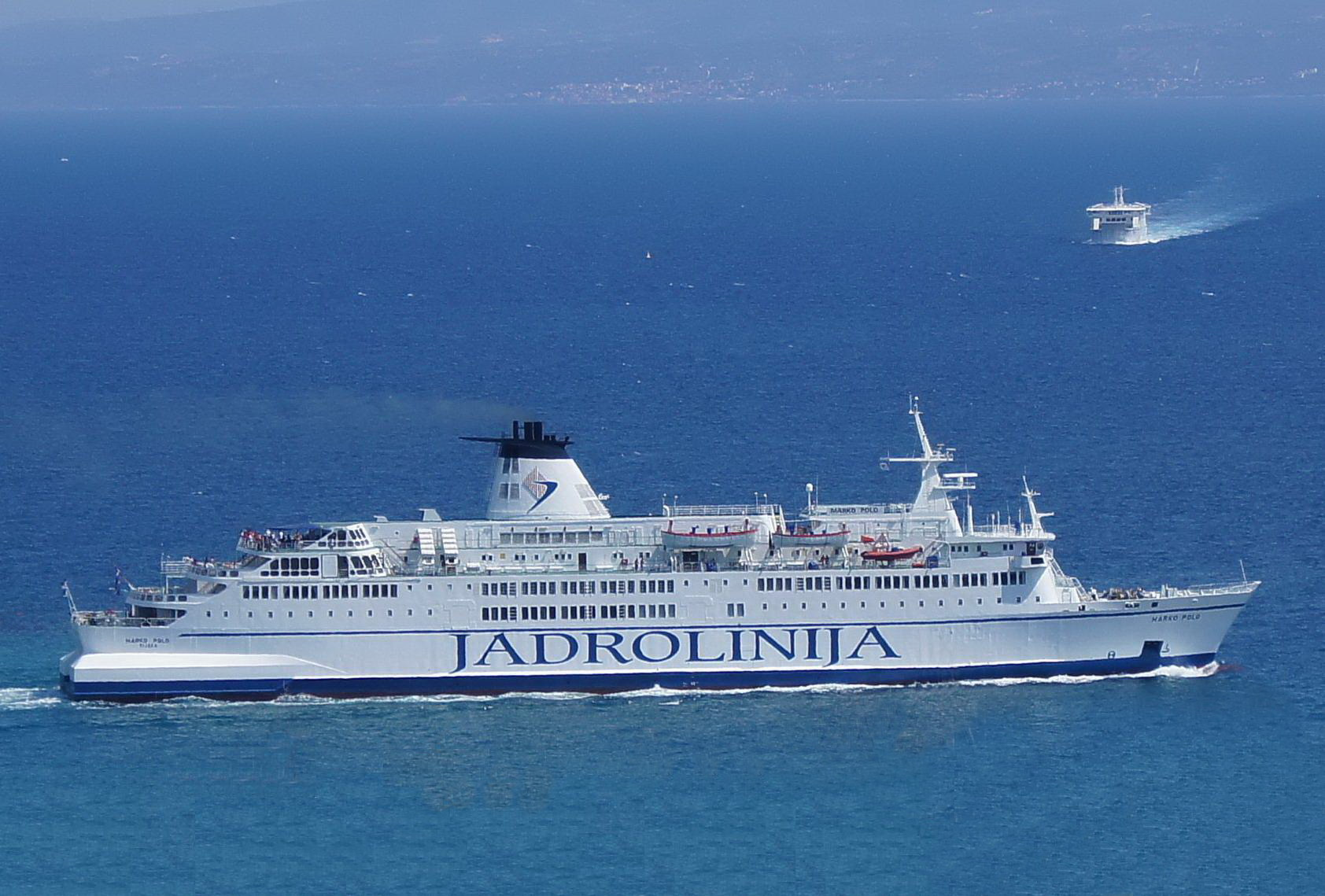 Marko Polo at Split, Croatia, on 2011-07-16.